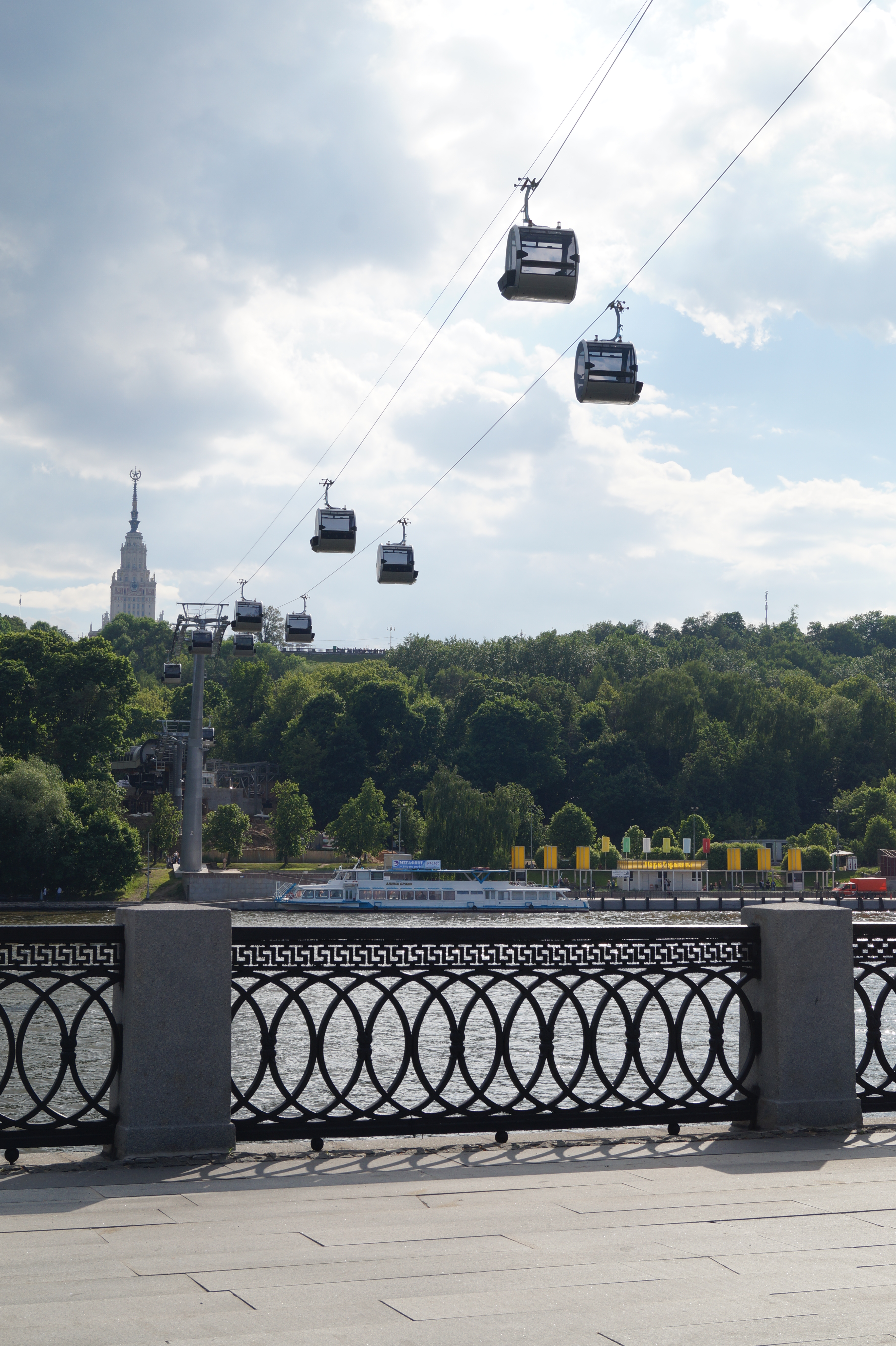 Luzhniki Cableway Station May 2018